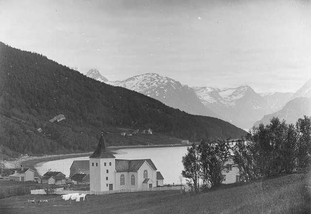 Lyngen church, Lyngseidet